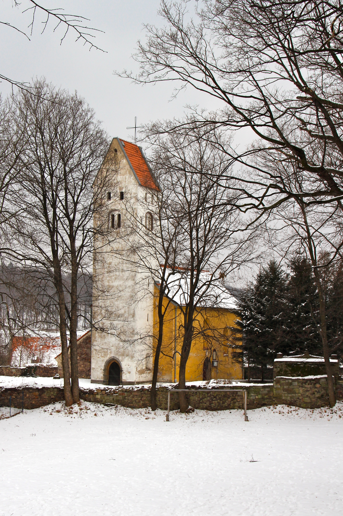 Saint Nicholas church in Świny.